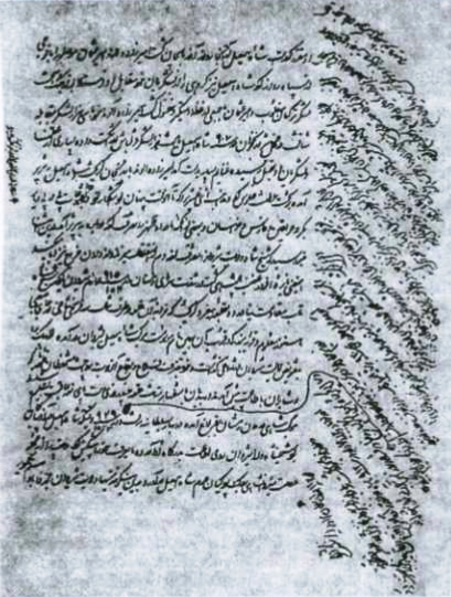 Page of the manuscript of A.Bakikhanov library's "Gulistani Irem"